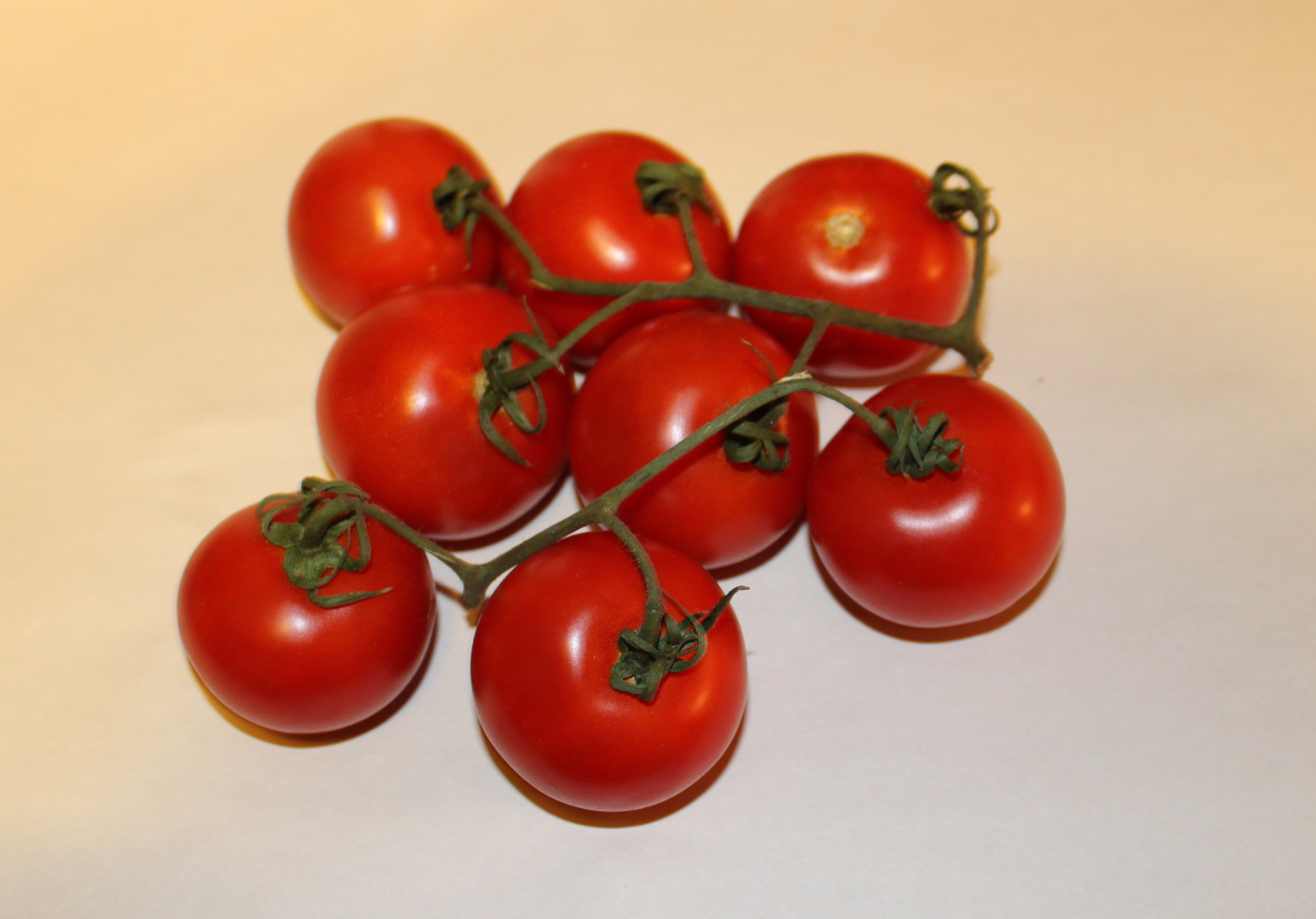 Campari tomatoes on the vine, hydroponically grown in Mexico.